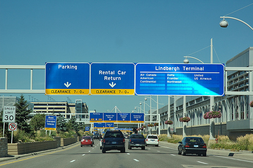 Driving into the parking and terminal areas at MSP., Minnesota.